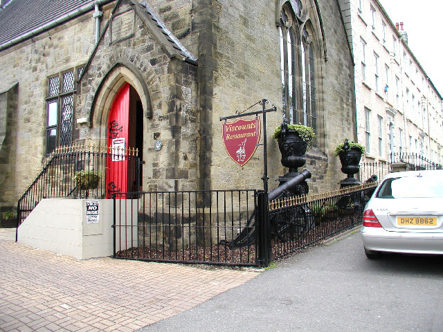 Viscount Restaurant, Dungannon. Viscounts in Dungannon is a lively, large restaurant housed in a converted church hall. The beautiful stone building, with vaulted ceiling and stained glass windows, had been abandoned by the church community. The church has been themed to the hilt, medieval style.